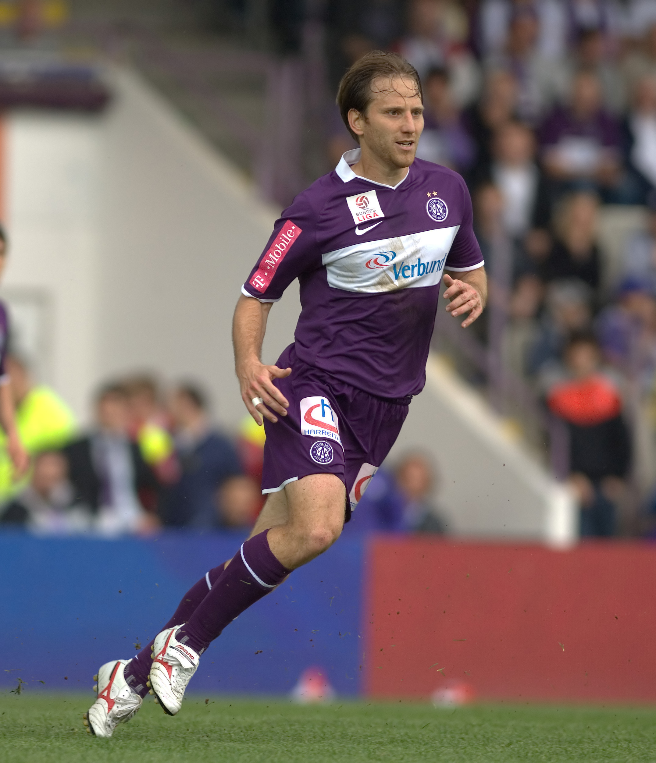 Tomáš Jun at the game SV Ried vs. FK Austria Wien Location: Franz-Horr-Stadion, Vienna, Austria Camera: Nikon D2X Lens: AF-S VR Nikkor 300 mm 1:2,8 IF-ED f/2,8 Film / Speed: ISO 400 Comment